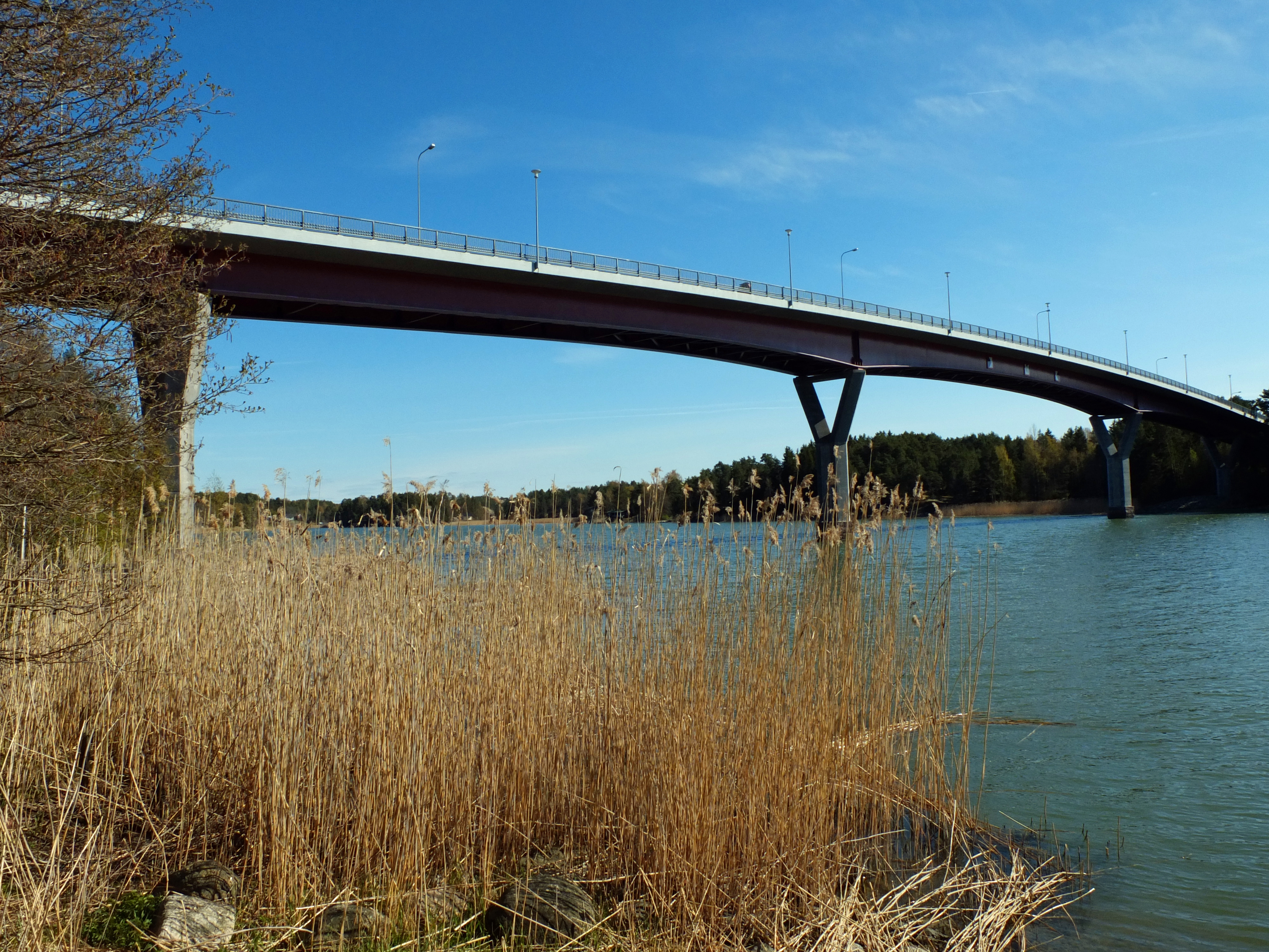 Bridge over Kirkonsalmi in Merimasku, Naantali, Finland. Design Ilkka Vilinen, Ramboll Finland 2002. Length 273 m.